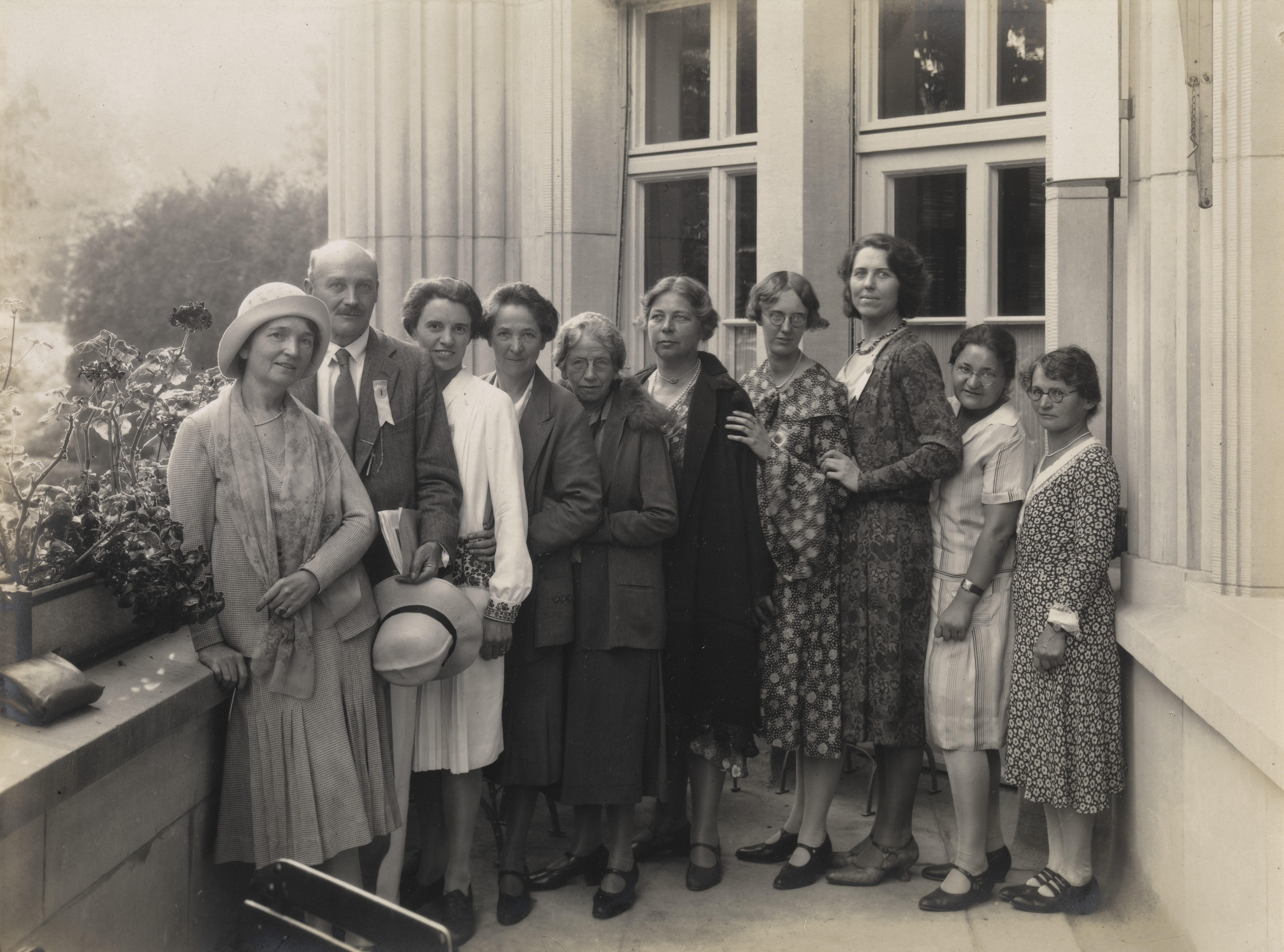 Group photograph at Zurich Birth Control Conference, Sept 1930. On reverse: Margaret Sanger 1, Susanna Green 5, Marjorie Martin 3, Grace M. Bruce 8, Wilhelmina Mary Breed 7, Annie H. Eppler 10, Dr Charles Vickery Drysdale 2, Elsbeth Seagmann 9, Edith How-Martyn 4, Gerda Sebbelov Guy 6. Archives & Manuscripts